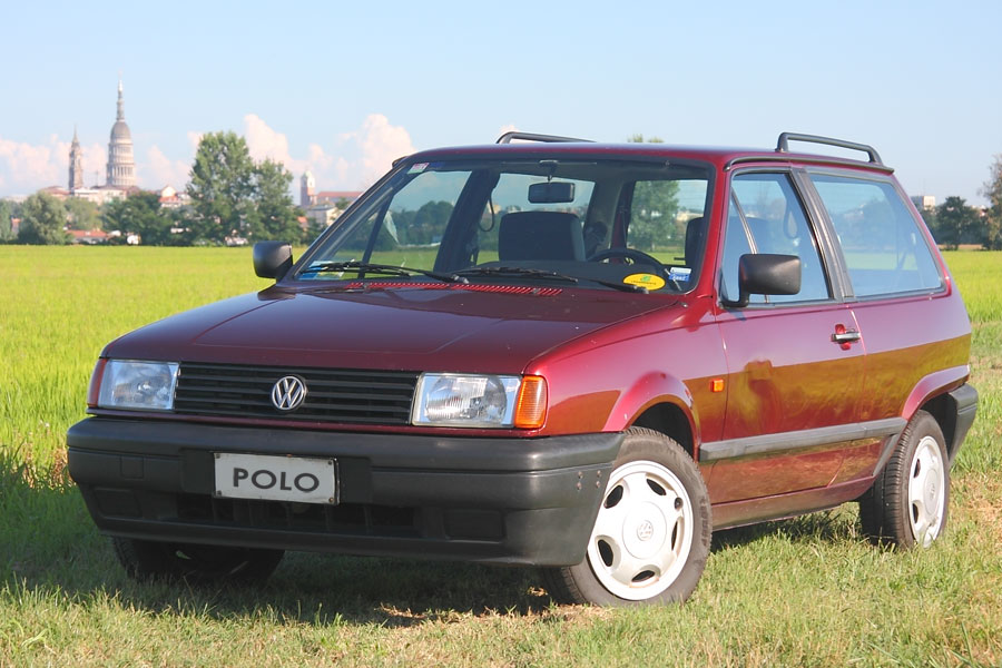 Volkswagen Polo CL Mark II Facelift (1990–1994), year 1993